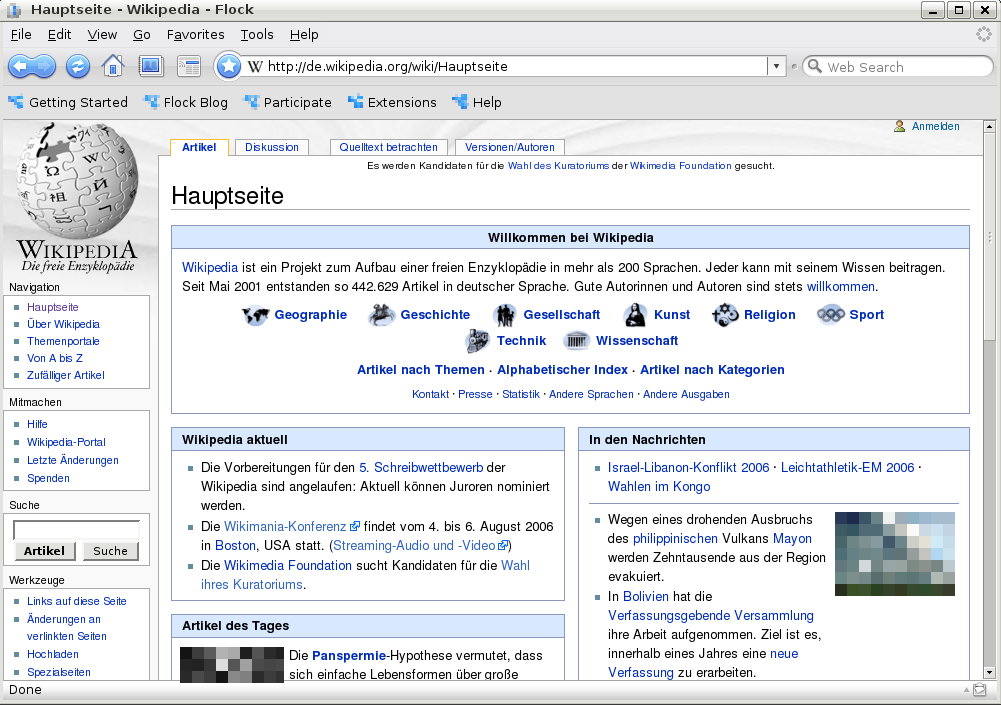 Screenshot of Flock 0.7.1 / Bildschirmfoto von Flock 0.7.1 unter Debian Sarge